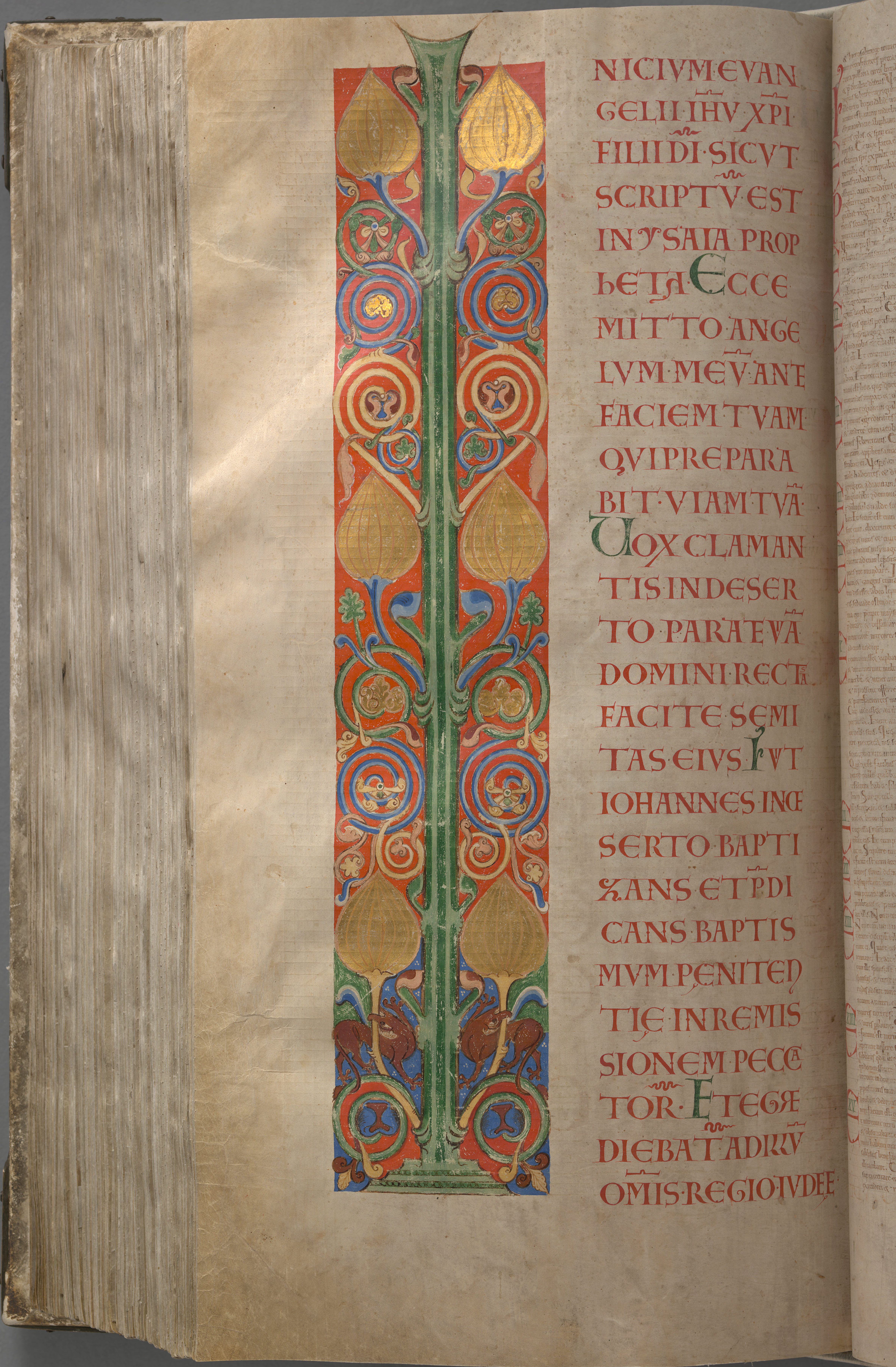 Giant Book) is the largest extant medieval manuscript in the world. It is also known as the Devil's Bible because of a large illustration of the devil on the inside and the legend surrounding its creation. It is thought to have been created in the early 13th century in the Benedictine monastery of Podlažice in Bohemia (modern Czech Republic). It contains the Vulgate Bible as well as many historical documents all written in Latin. During the Thirty Years' War in 1648, the entire collection was taken by the Swedish army as plunder, and now it is preserved at the National Library of Sweden in Stockholm, though it is not normally on display.